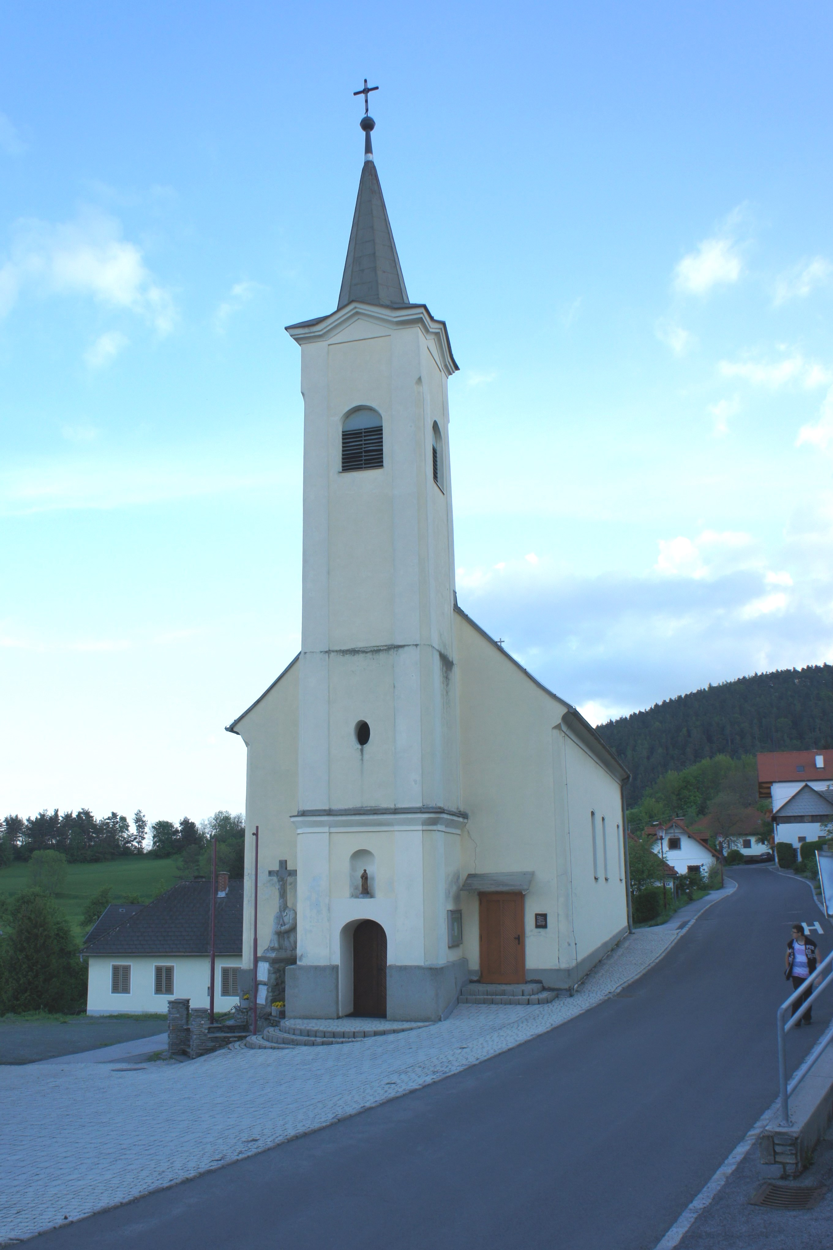 catholic church St. Oswald, Kogl, Austria